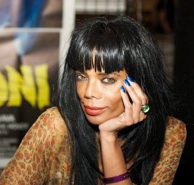 Headshot of Geretta Giancarolo